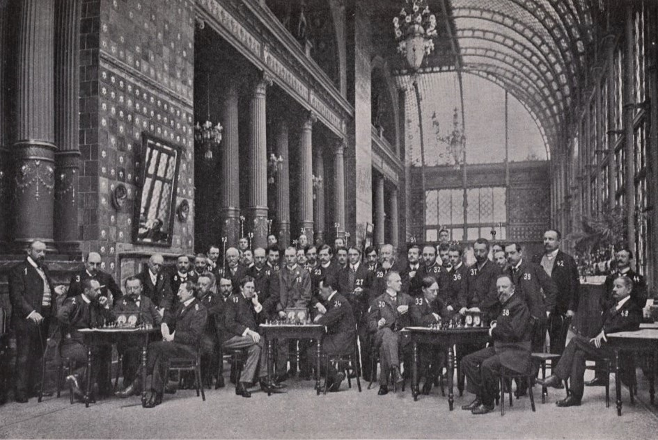 Players of the Ostend 1907 chess tournament